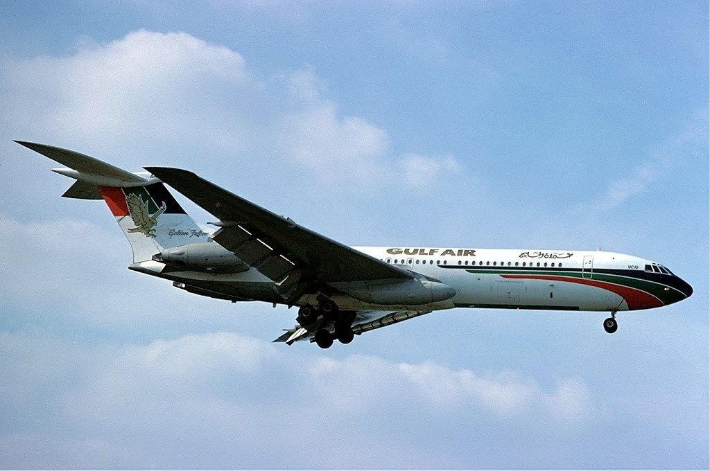 Vickers VC-10 of Gulf Air at London Heathrow Airport